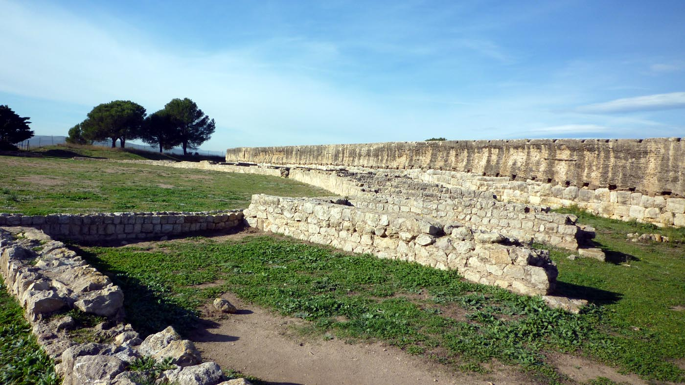 Archaelogical remains of the roman anphitheatre of Ampurias, Girona, Spain.